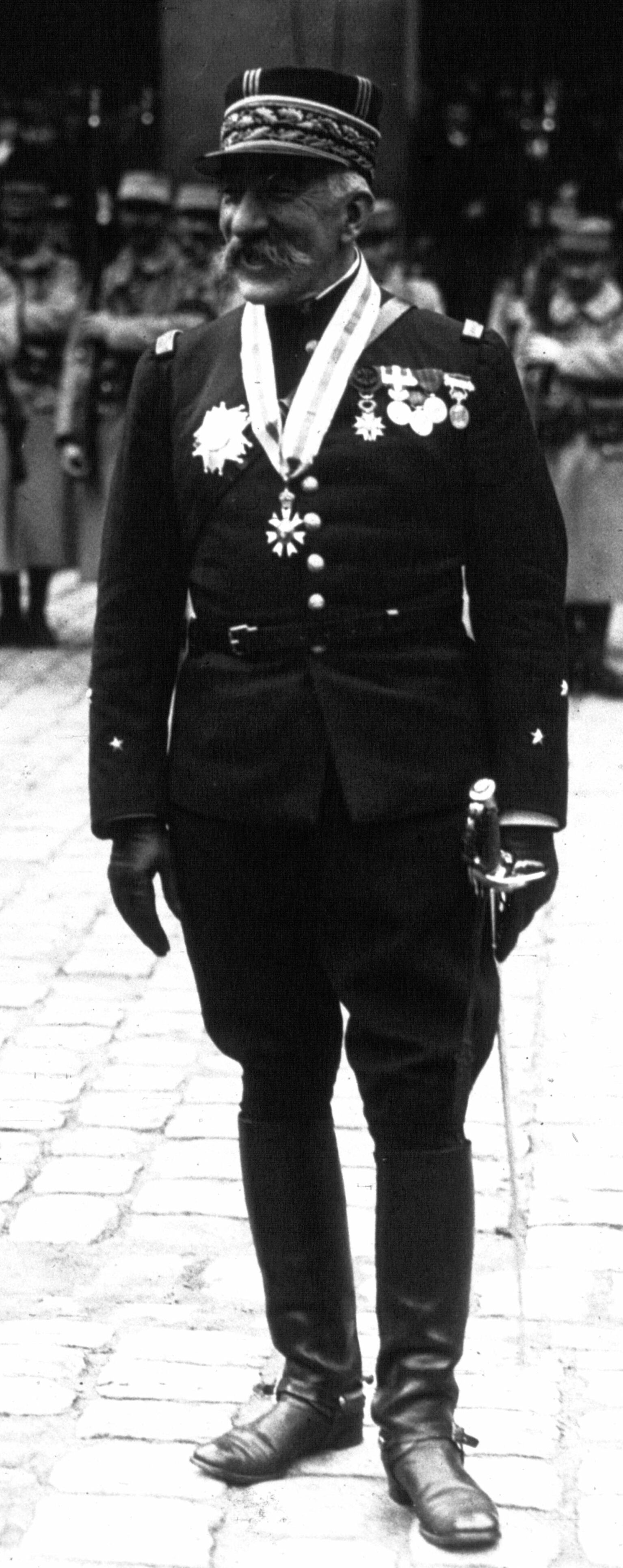 General Antoine Marius Benoît Drude